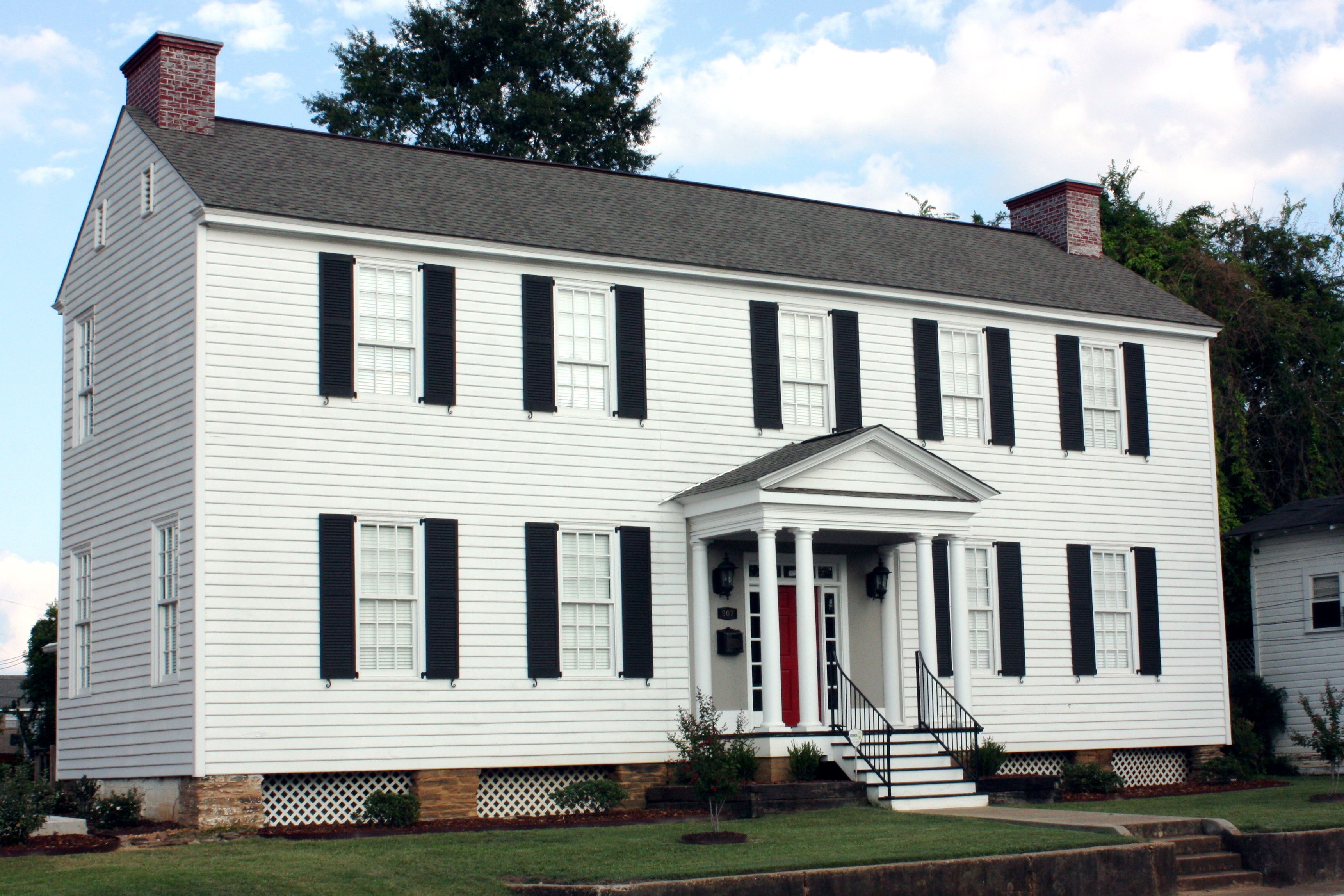 The Marmaduke Williams House at 907 17th Avenue in Tuscaloosa, Alabama. It is located in the Druid City Historic District. The 1830's Federal Style house is one of the oldest homes in the city